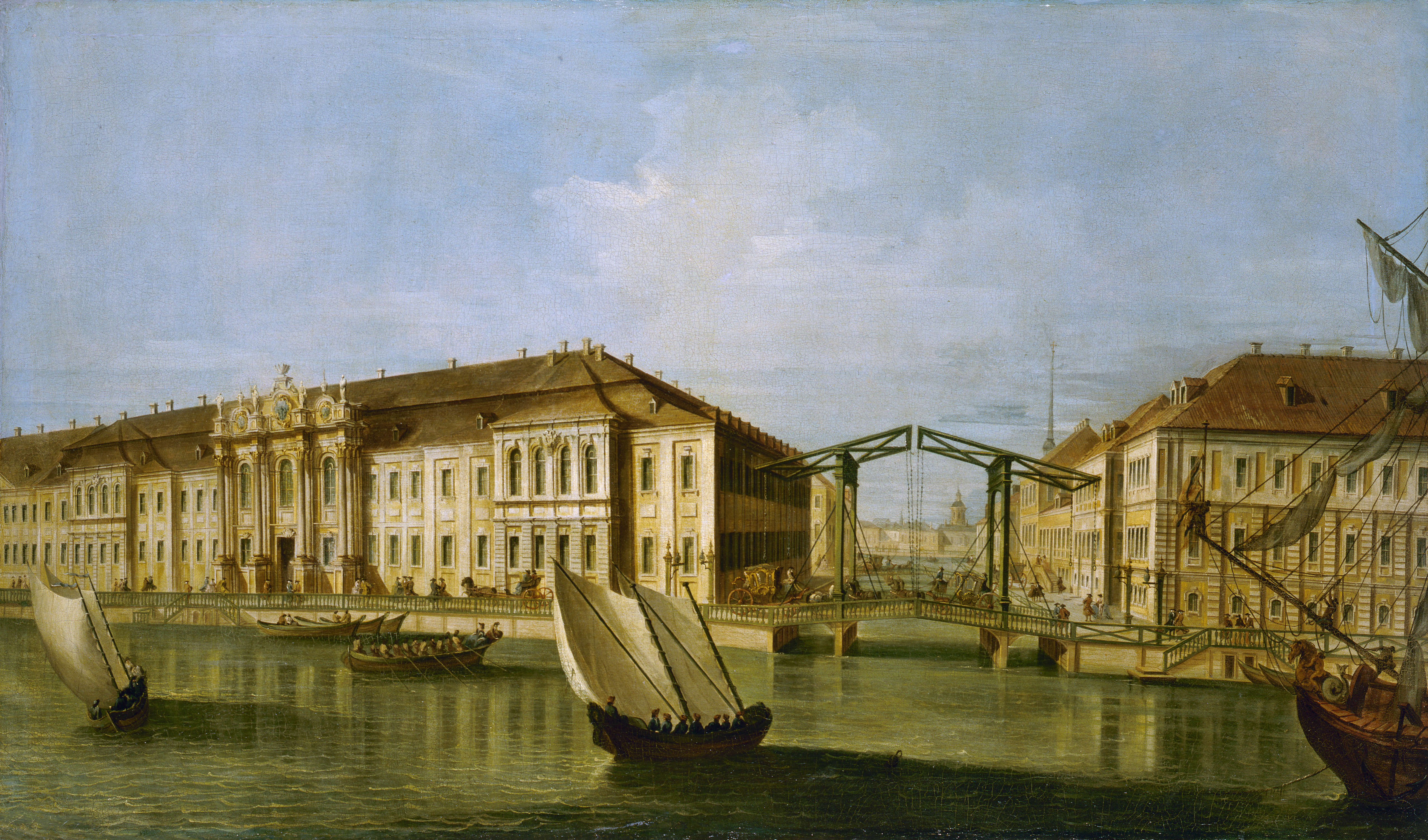 Unknown Italian (?) Artist, drawing by Mikhail Makhaev. View of the Winter Palace